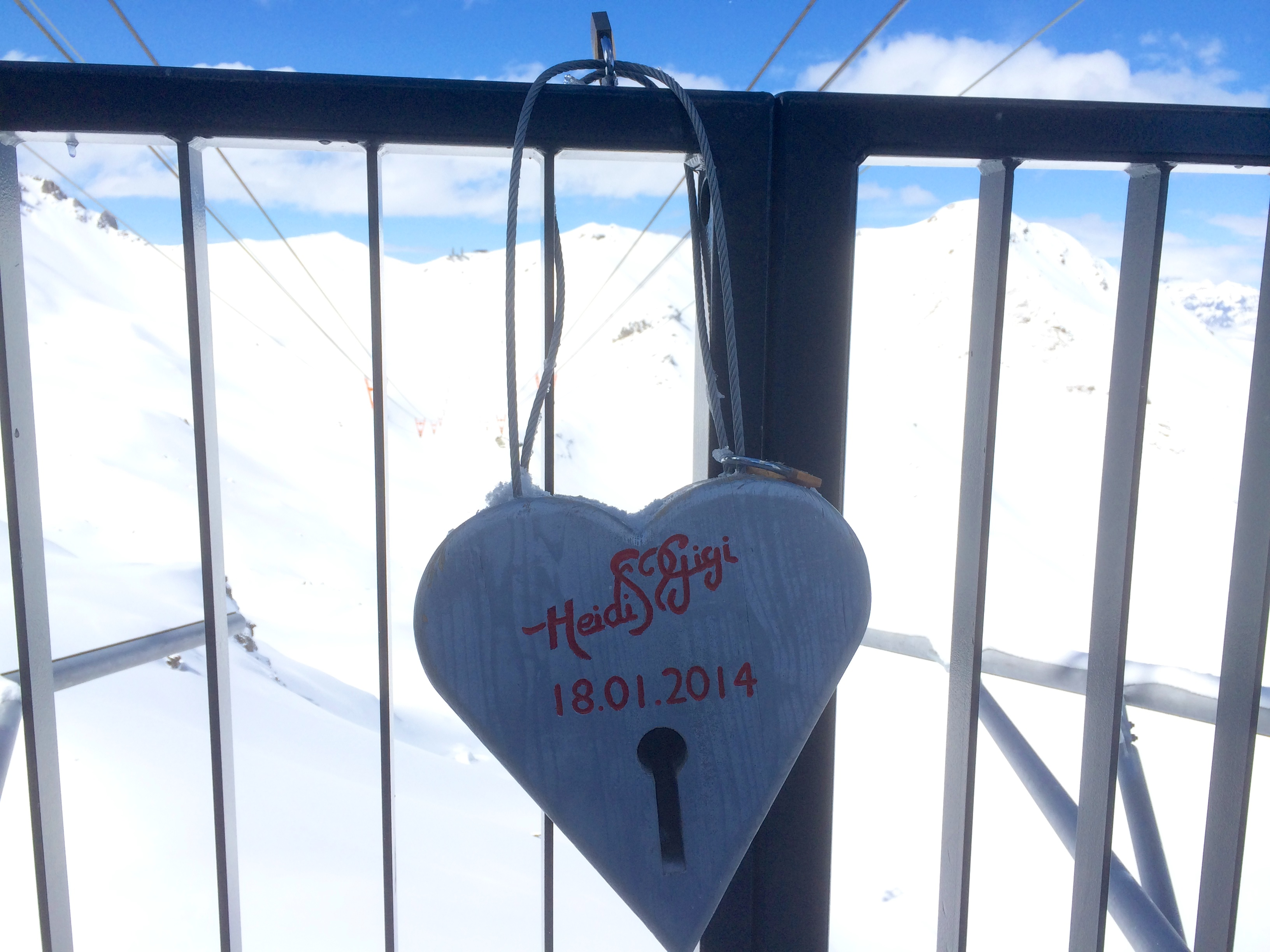 Padlocked wooden heart for celebrating new cableway "Urdenbahn" in Arosa/Switzerland